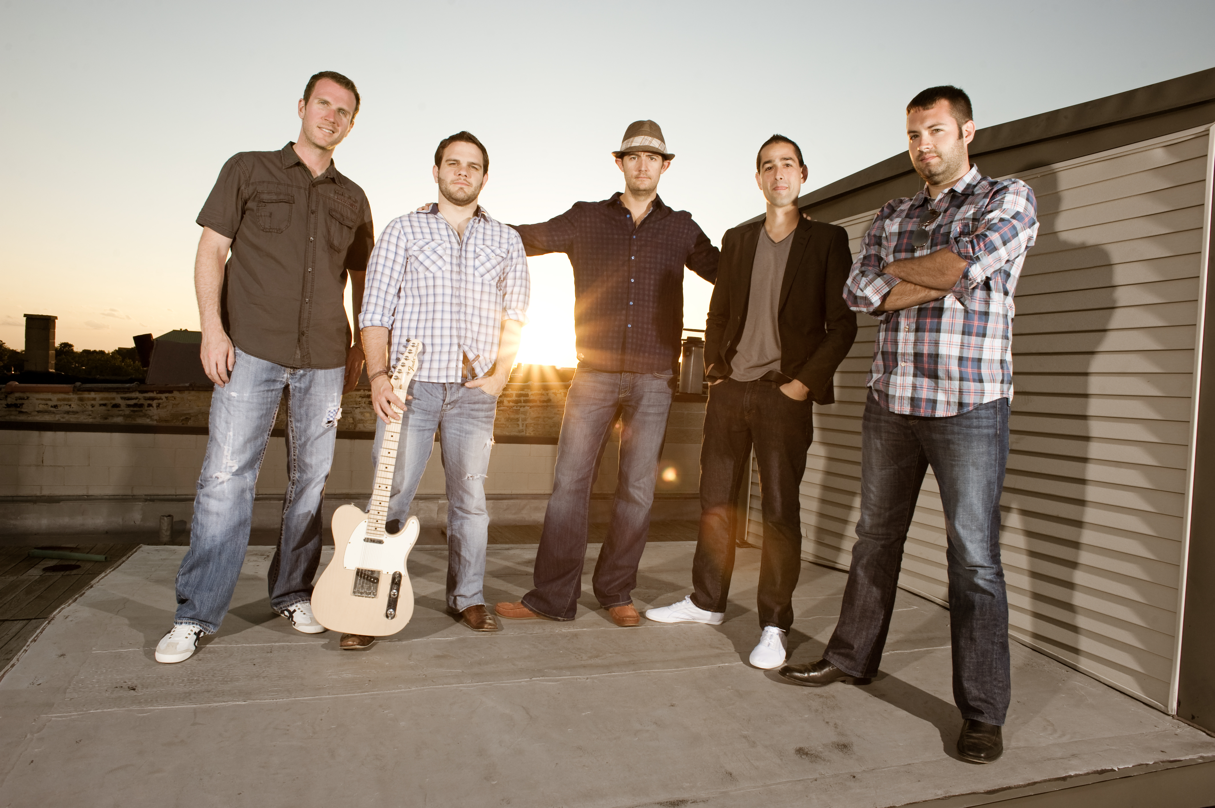 Photo of Chicago band Vintage Blue